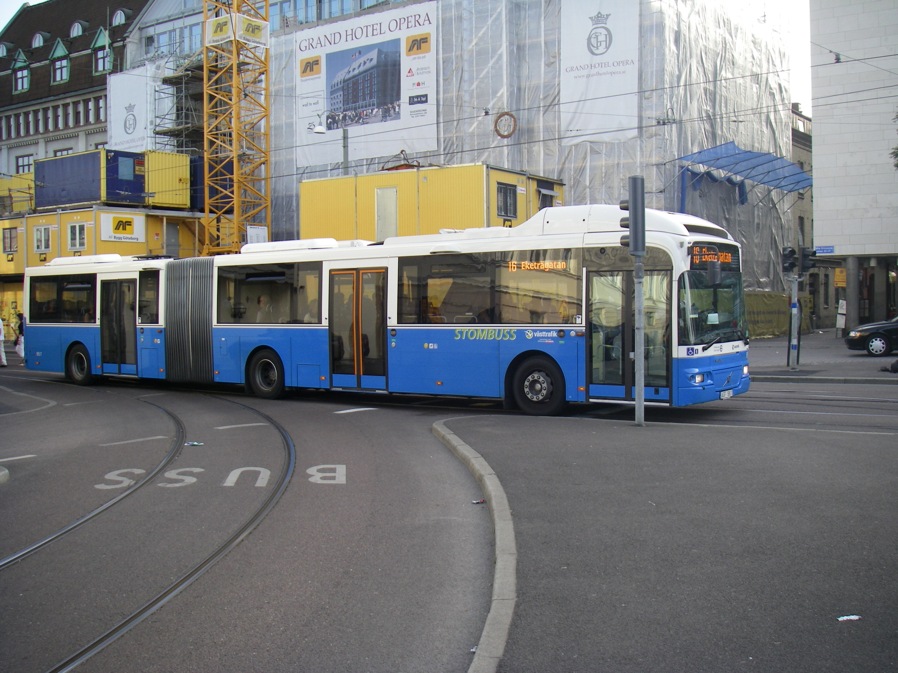 Stombuss 16 in Gothenburg, Sweden. Volvo 7500 / Säffle (reg. AGF 981, #957), built 2007.